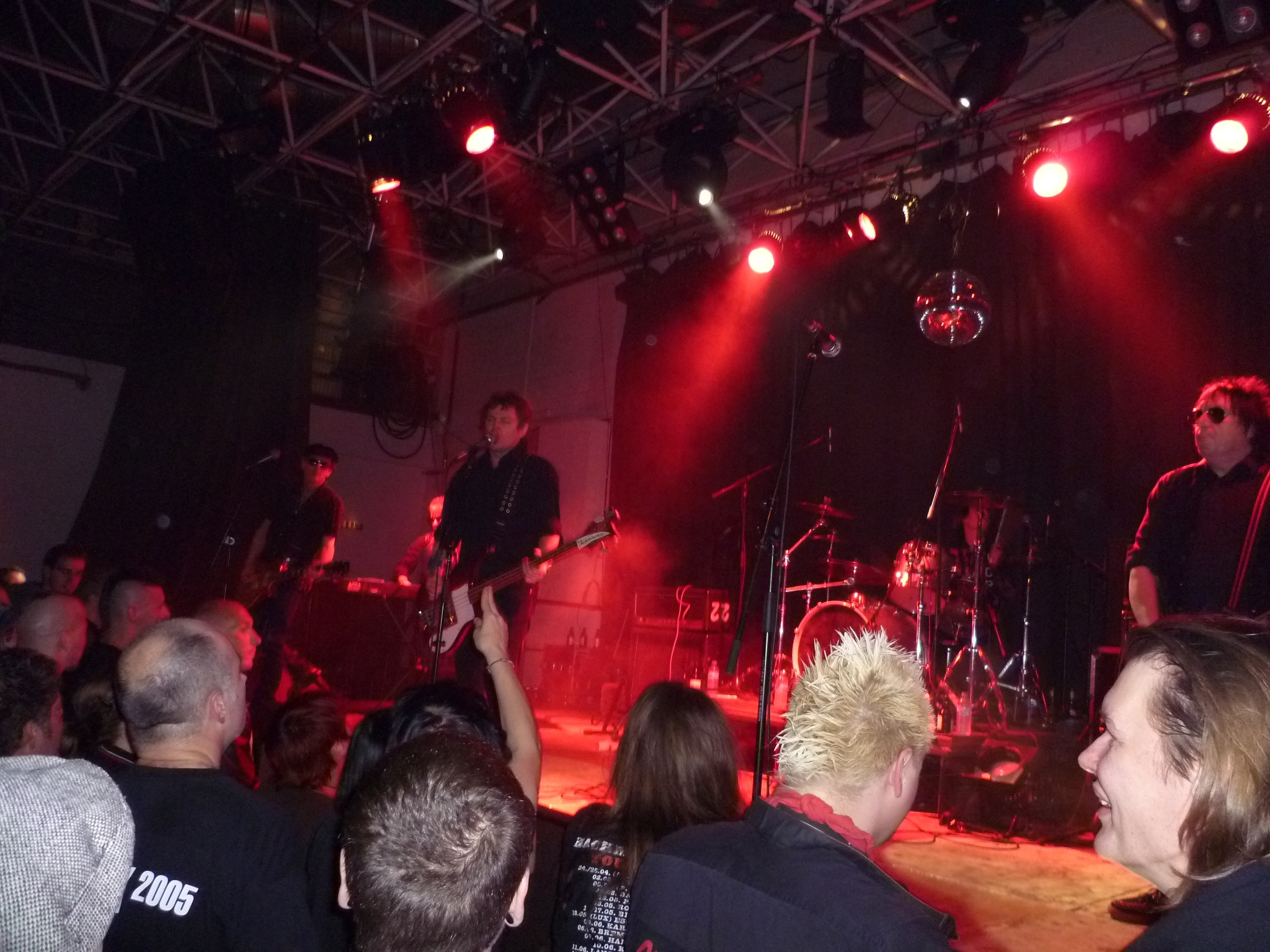 The Boys live in Düsseldorf (Zakk)